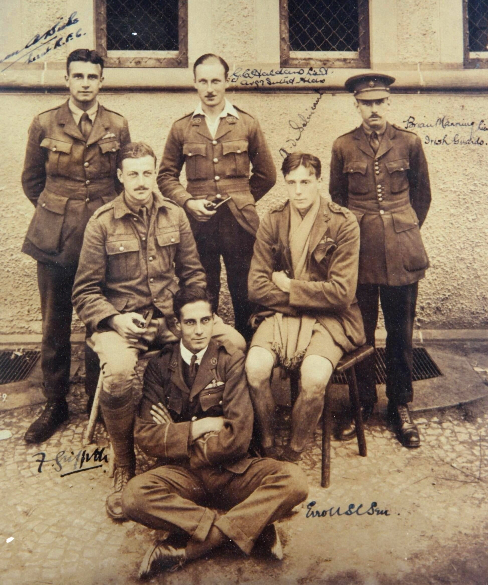 "The Mess": prisoners in Holzminden prisoner-of-war camp, c.1918. Standing: Lt Norman A. Birks, Royal Flying Corps; Lt George C. Haldane, Argyll & Sutherland Highlanders; Lt Brian Manning, Irish Guards. Seated: Capt F. Griffith, Lancashire Fusiliers; Lt Aubrey de Sélincourt, Royal Flying Corps. Seated on ground: 2nd Lt Erroll Suvo Chunder Sen, Royal Flying Corps.